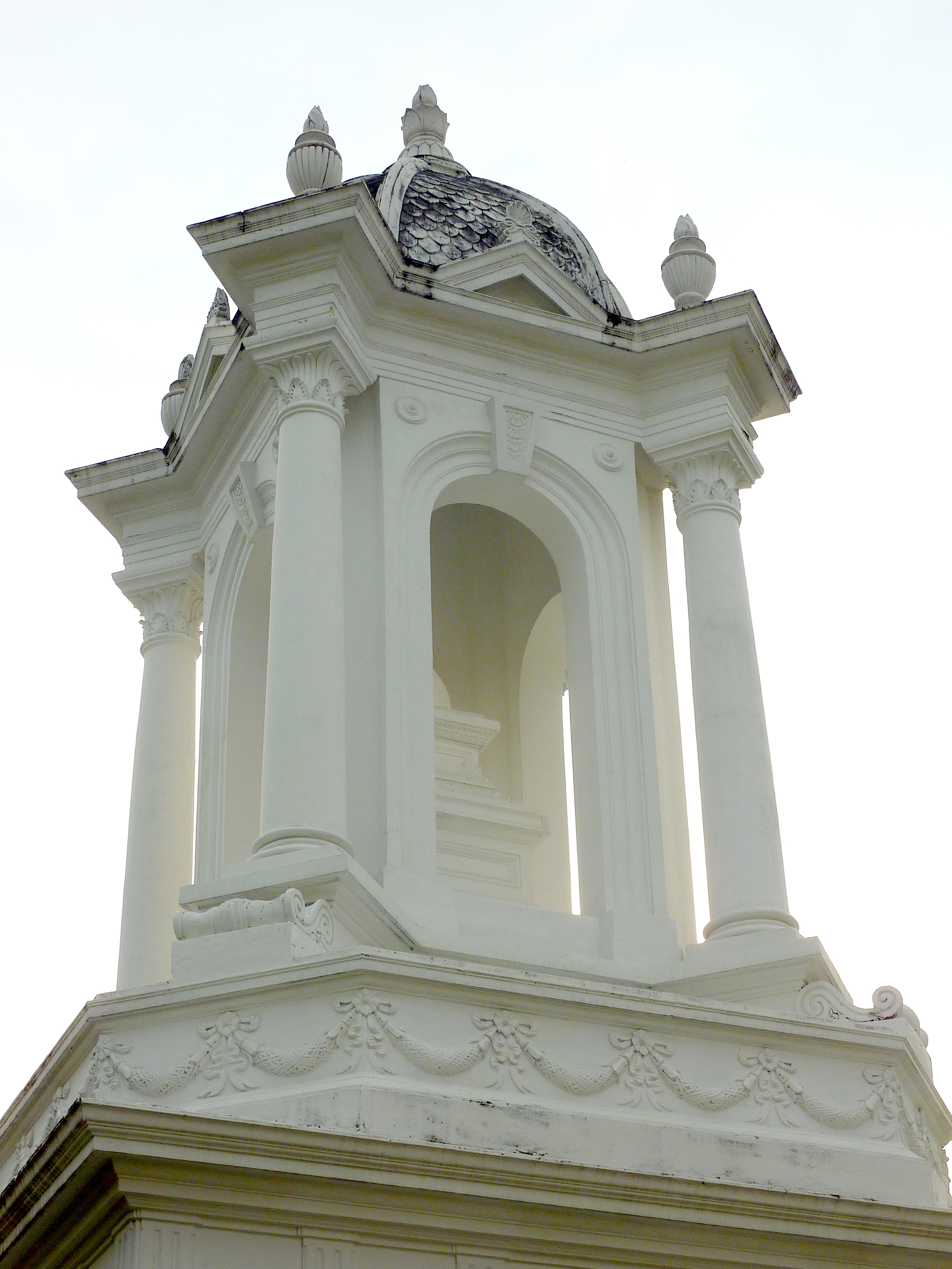 33 Tower, Wat Ratchabophit, Bangkok